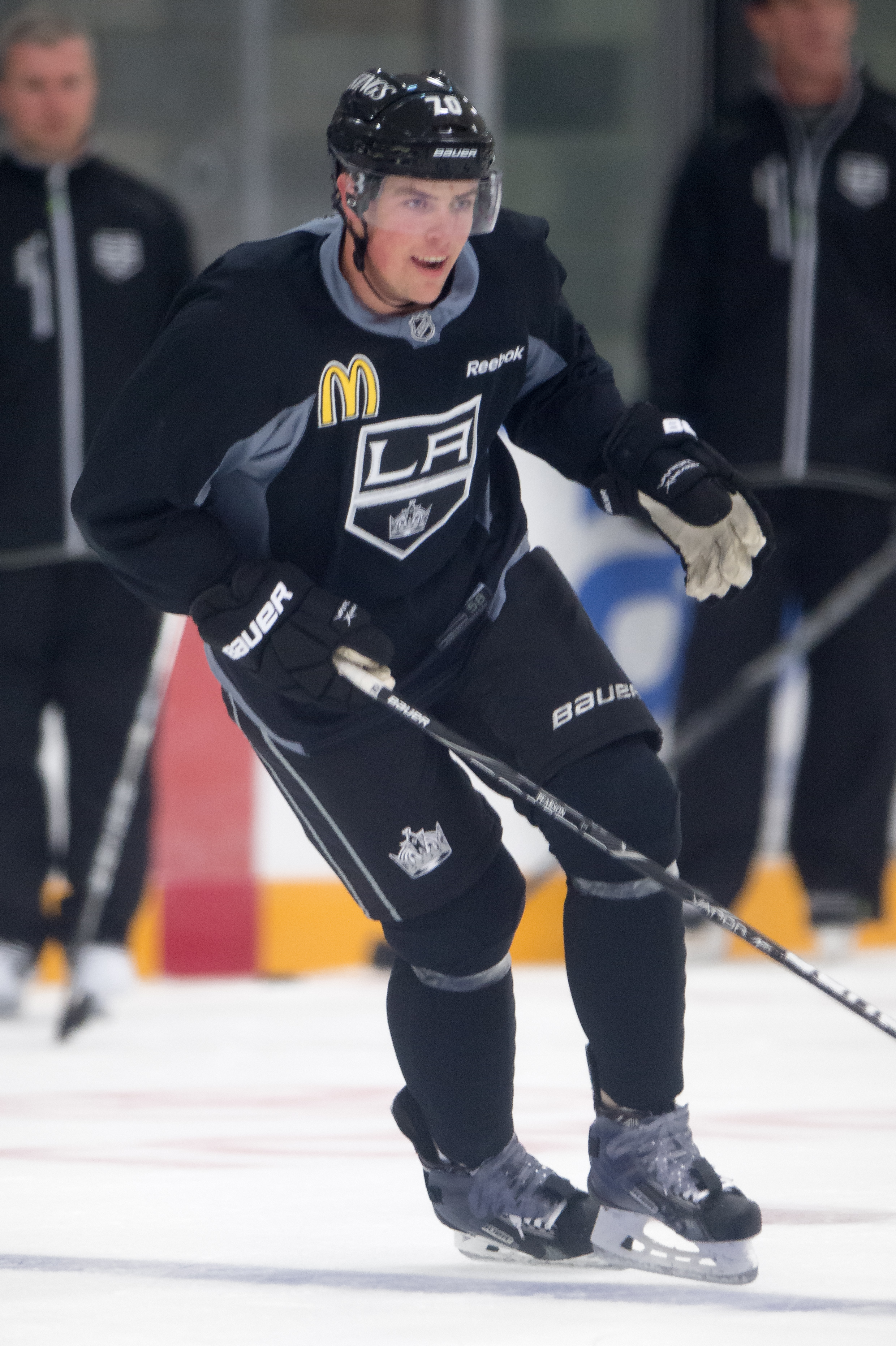 Tanner Pearson, Canadian ice hockey left winger